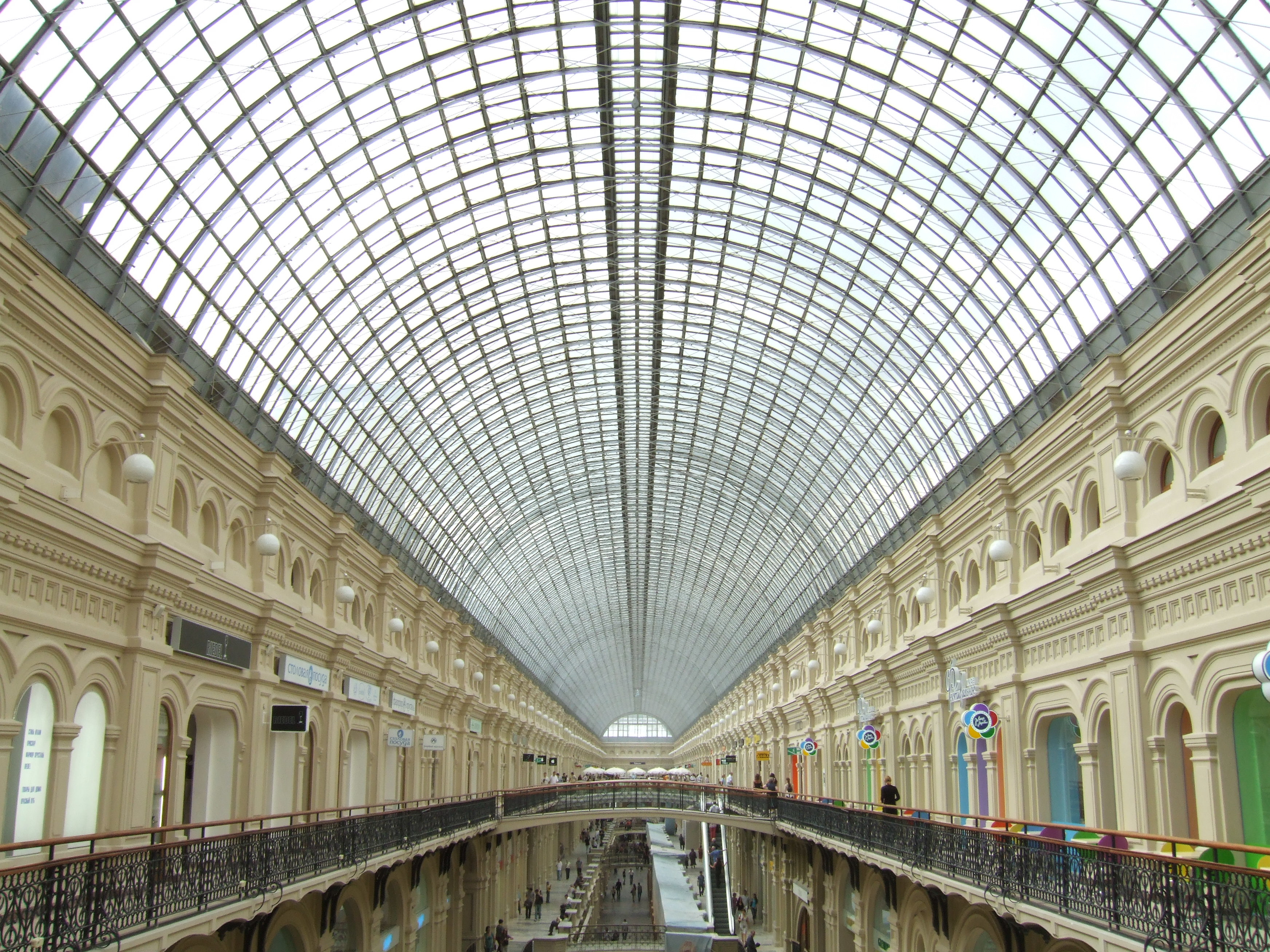 The metal structure of the barrel vaulted transparent roof of Upper Trading Rows (Moscow GUM). Designed by Vladimir Shukhov in 1893.